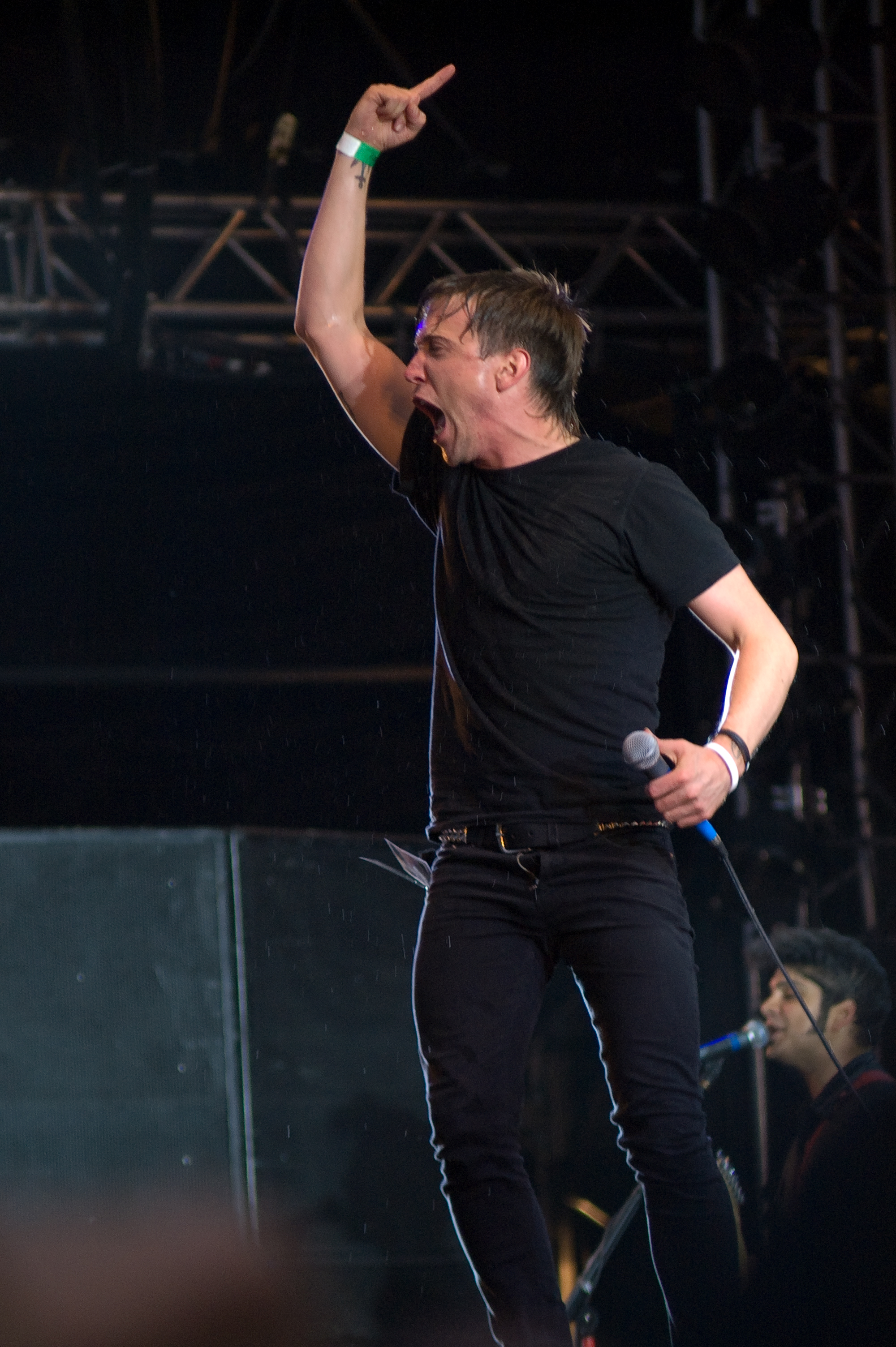 Billy Talent (Benjamin Kowalewicz) at Ruisrock 2007. The zipper is open.Billy Talent (Benjamin Kowalewicz) @ Ruisrock 2007